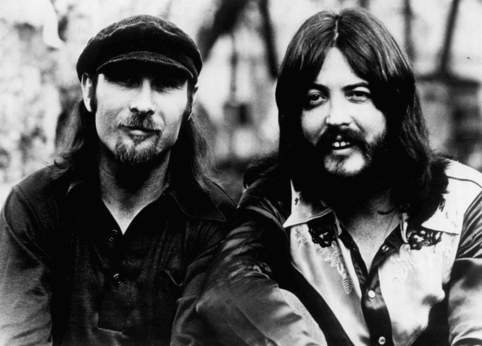 Photo of Seals and Crofts.